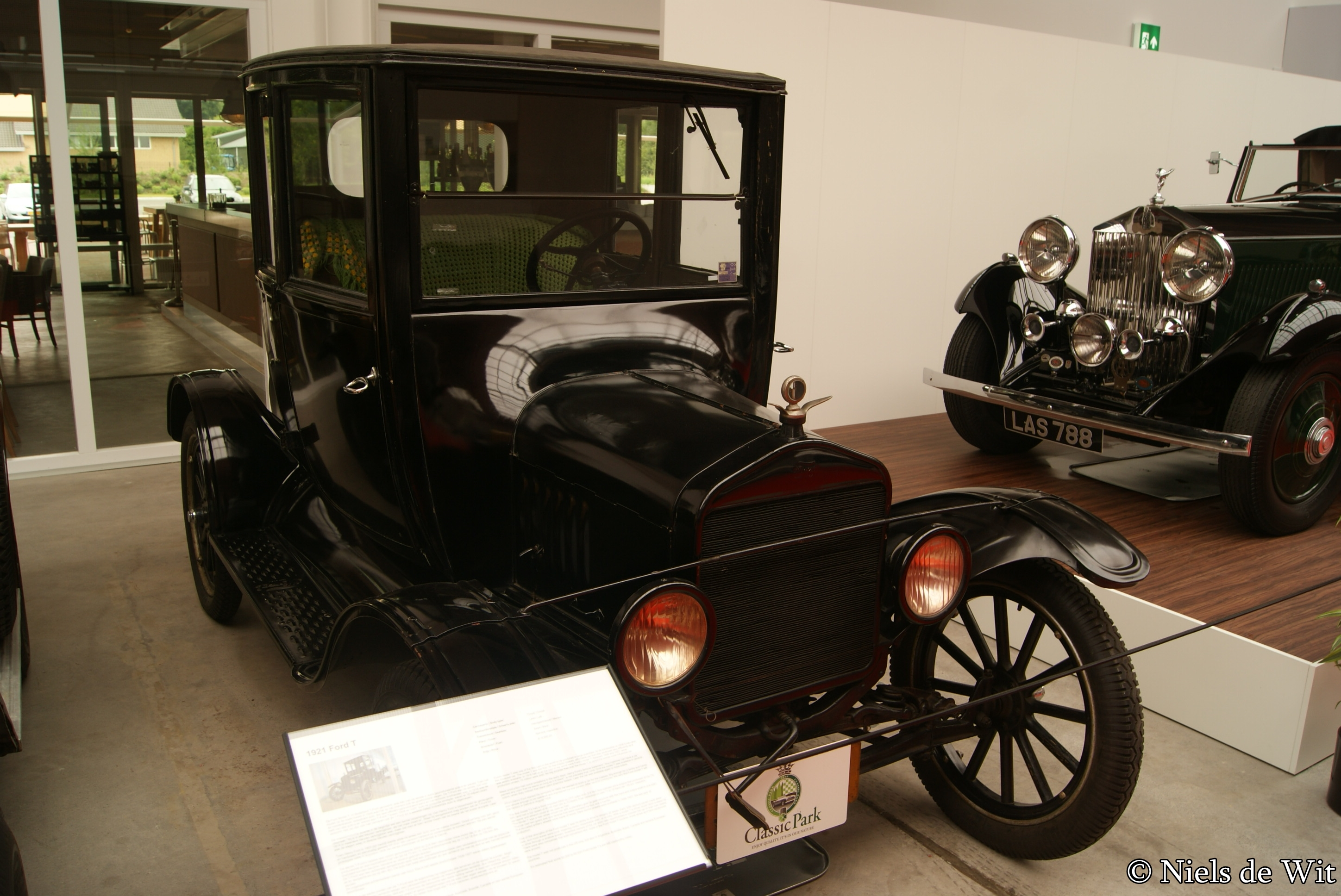 Classic Park Boxtel